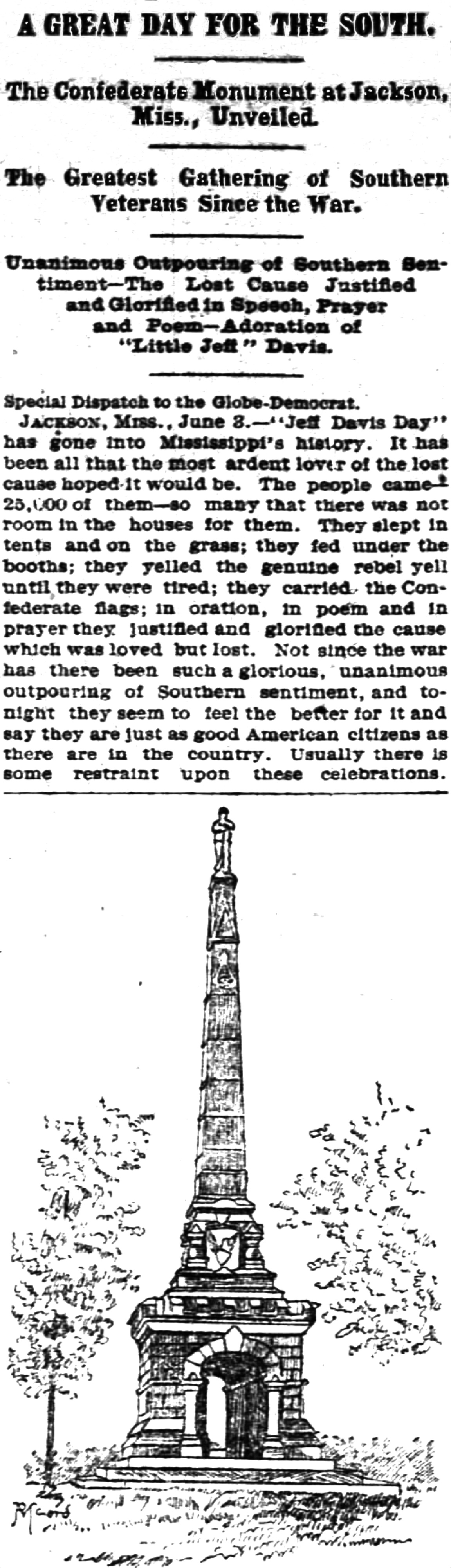 St. Louis Globe-Democrat article and drawing of Confederate monument in Jackson, Mississippi, with headline mentioning Lost Cause of the Confederacy, June 4, 1891